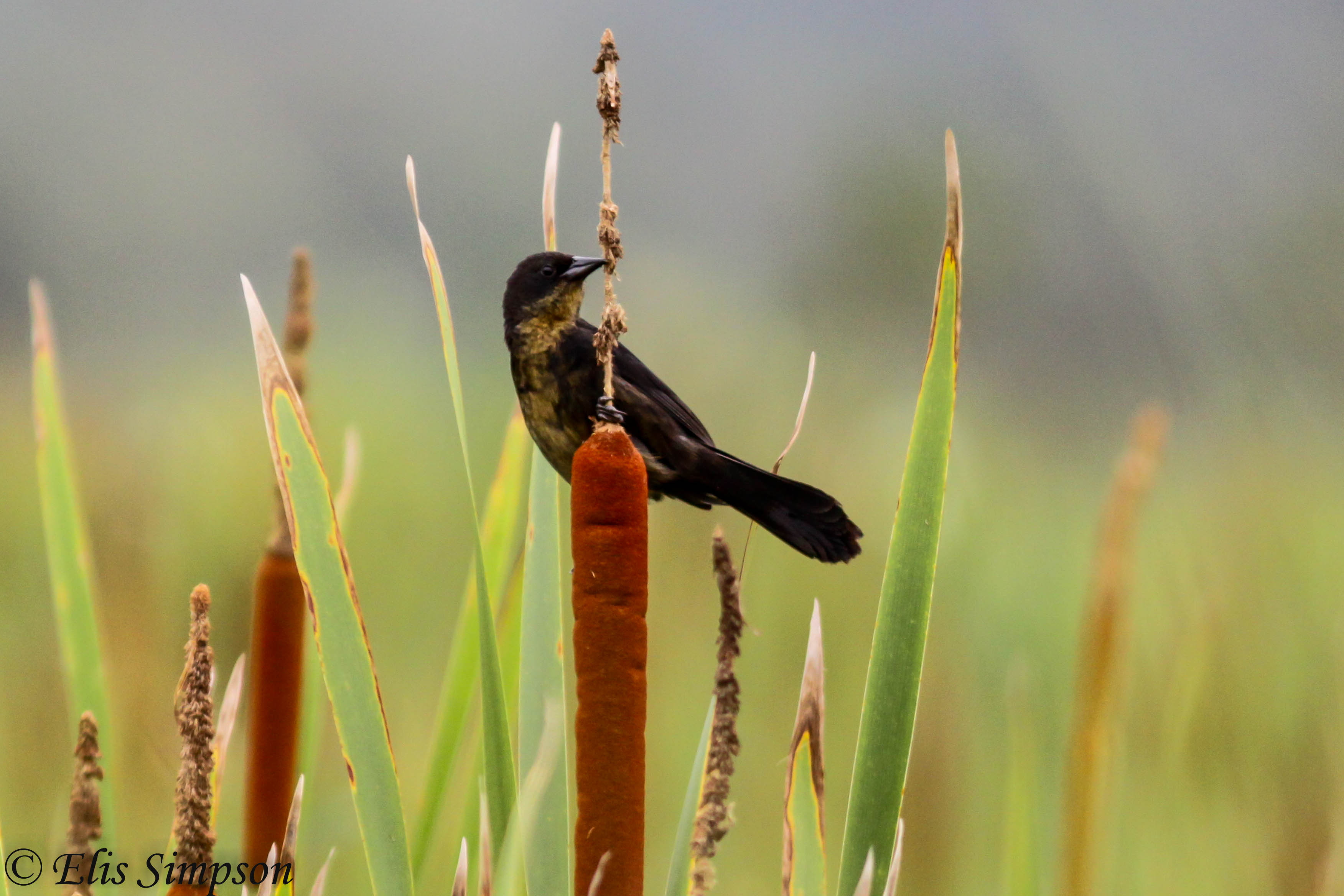 Unicoloured Blackbird